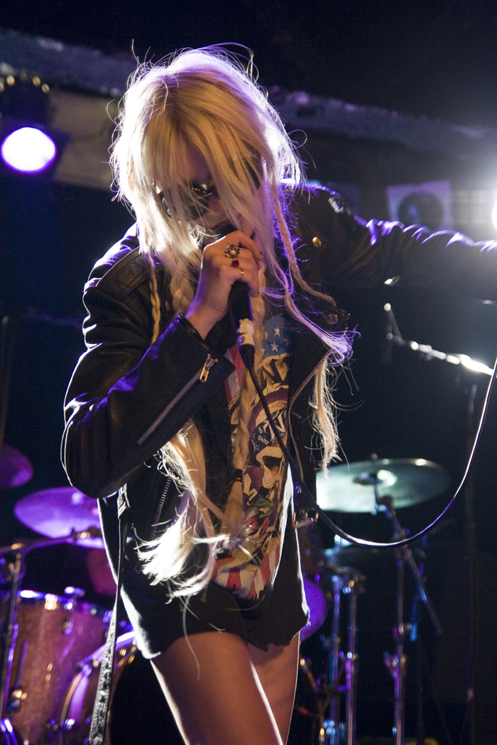 The Pretty Reckless - Razz 2 - Julio 2011